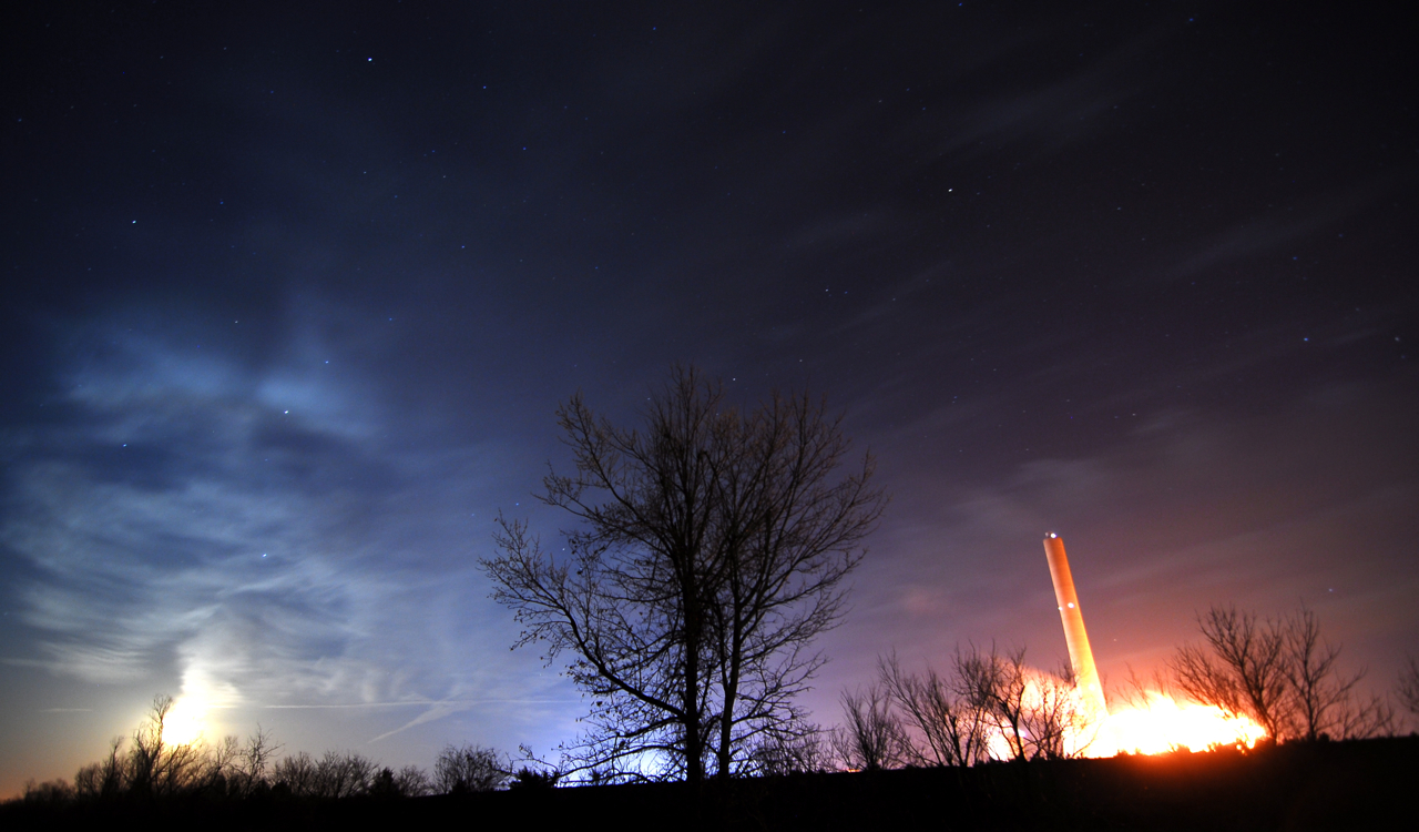 Independence Power Plant, located just east of Newark, Arkansas